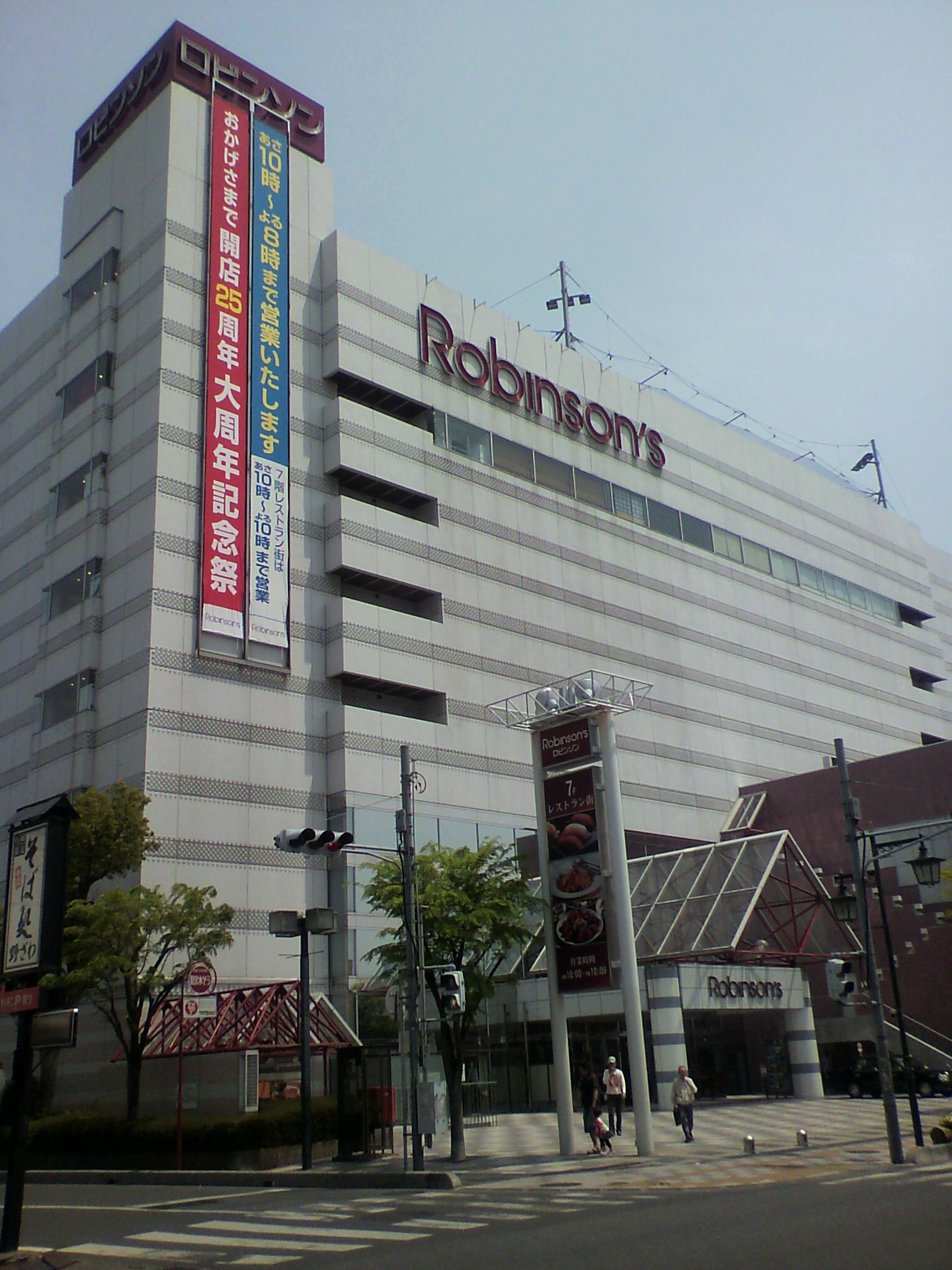 This is the Robinson Department Store Kasukabe shop, which is located in Kasukabe, Saitama, Japan.